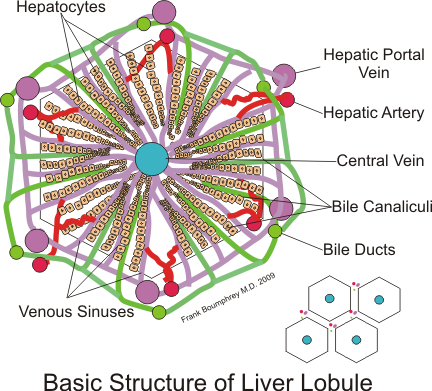 Schematic diagram showing basic structure of Hepatic (Liver) lobule.